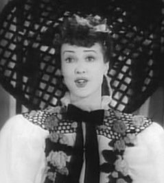 Cropped screenshot of Gypsy Rose Lee from the film Stage Door Canteen (1943).